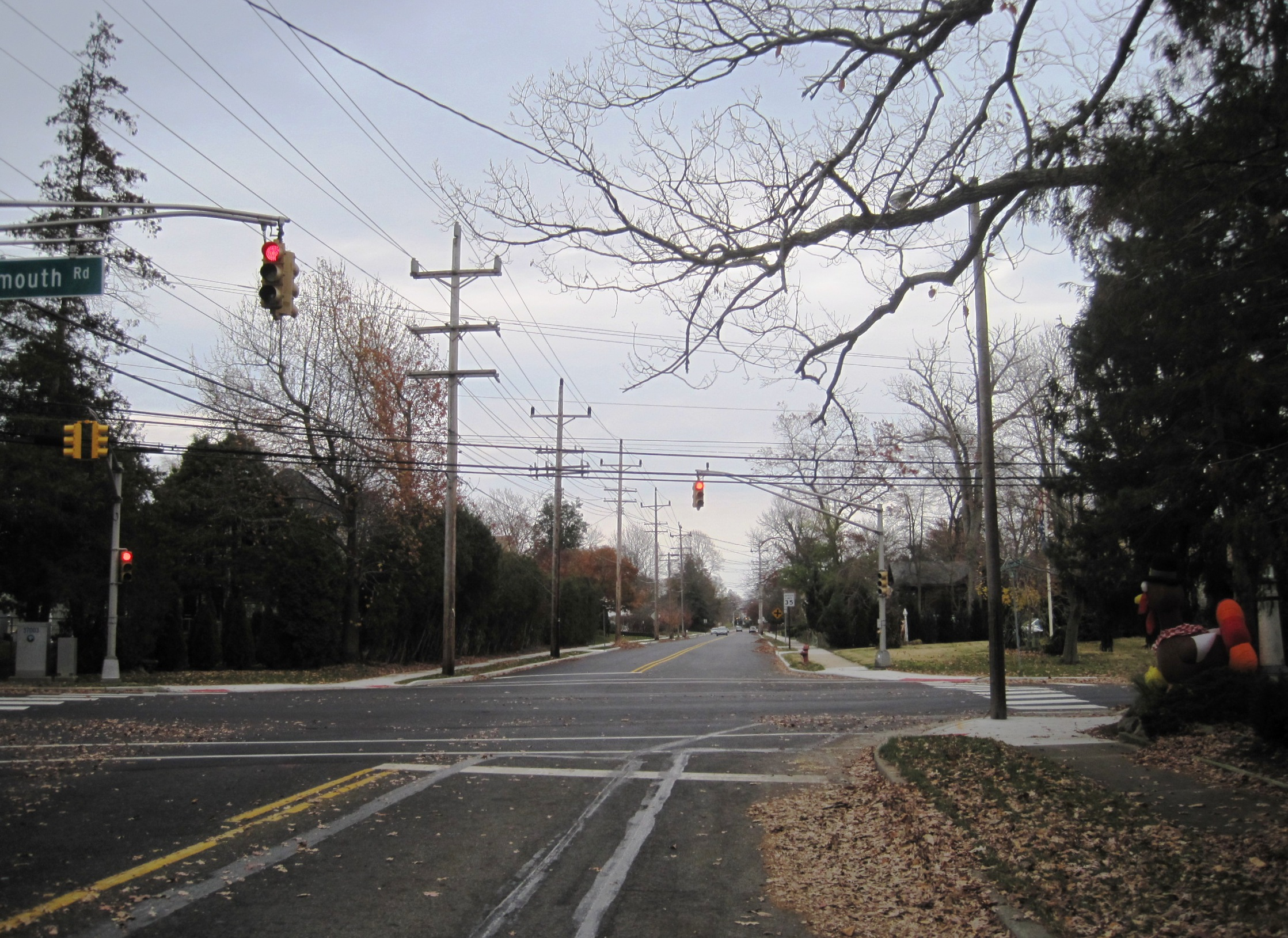 Photo showing West Allenhurst, New Jersey, an unincorporated community within Ocean Township, Monmouth County. Photo taken along eastbound Corlies Avenue at Monmouth Road (County Route 15).